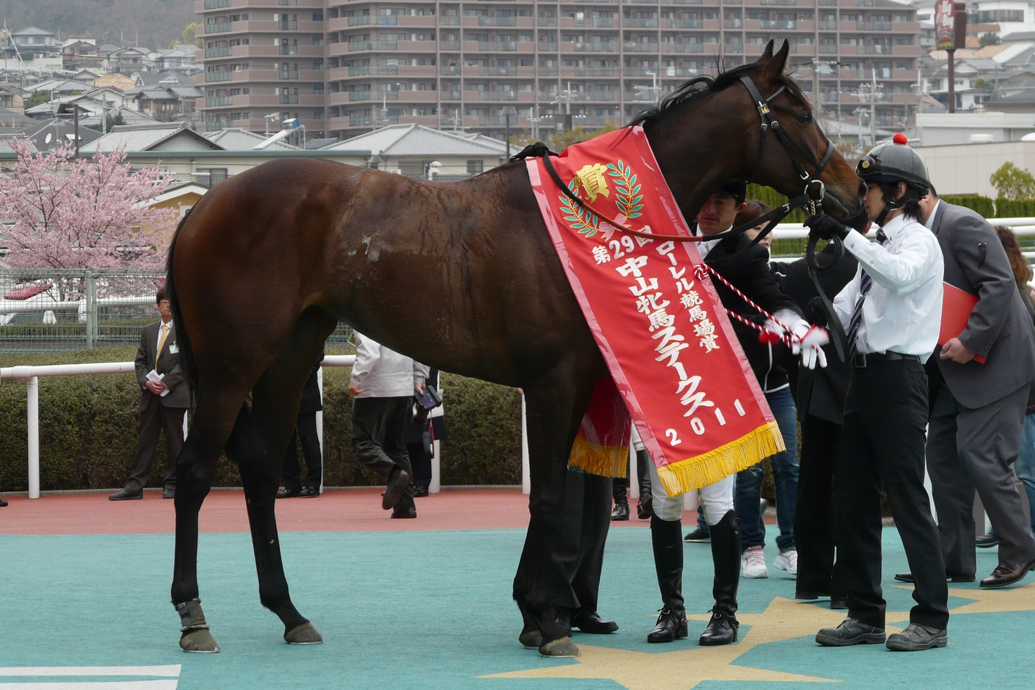 Lady-Alba-Rosa20110402